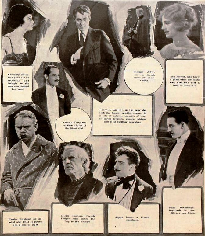 Cast of the American drama film A Splendid Hazard (1920) with Rosemary Theby, Henry B. Walthall, Thomas Jefferson, Ann Forrest, Norman Kerry, Hardee Kirkland, Joseph J. Dowling, J. Jiquel Lanoe, and Philo McCullough, from an ad on page 4599 of the June 5, 1920 Motion Picture News.